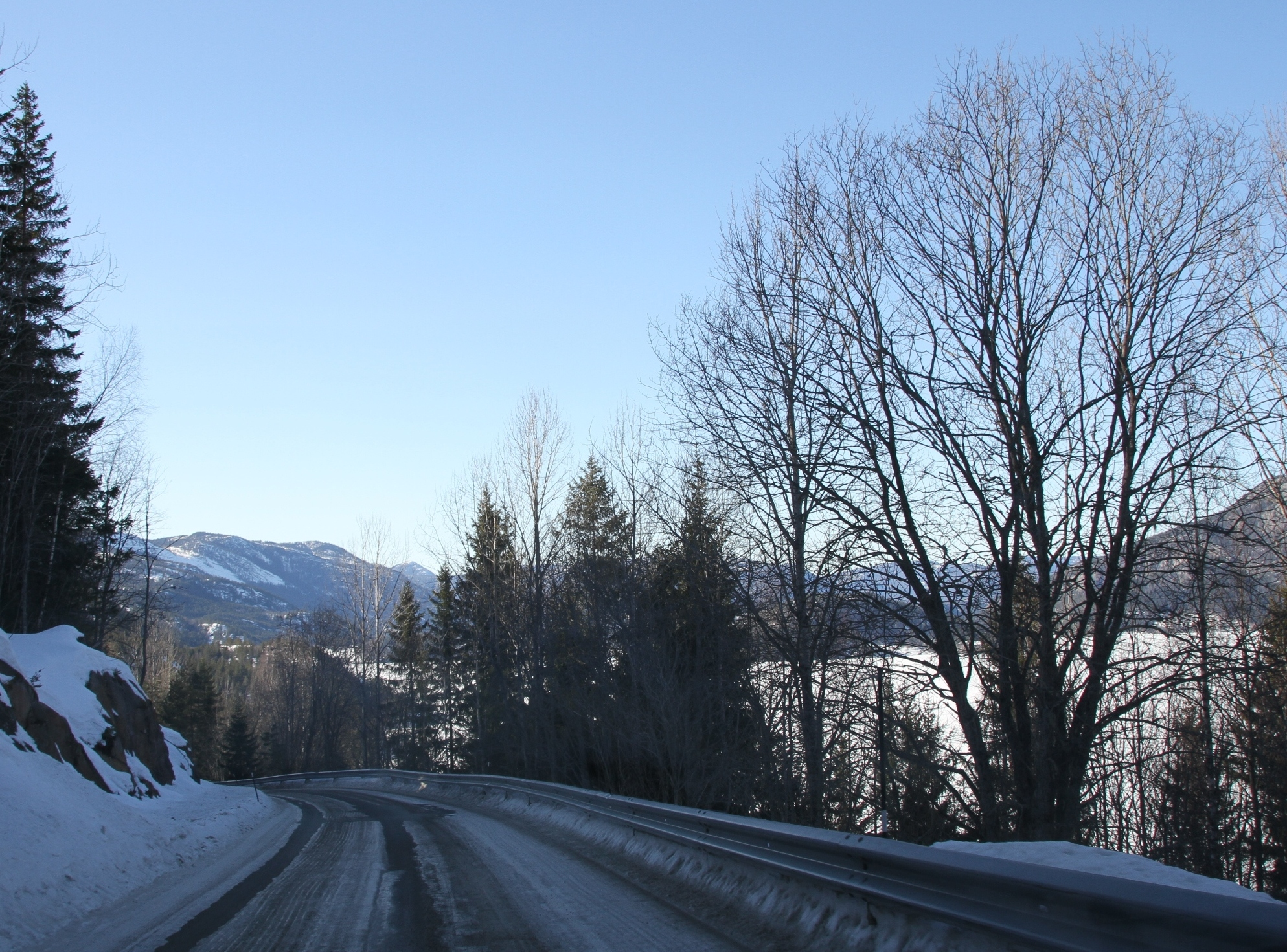 Image from along the Kviteseidvatnet Lake, in Kviteseid municipality, Telemark county (Norway).